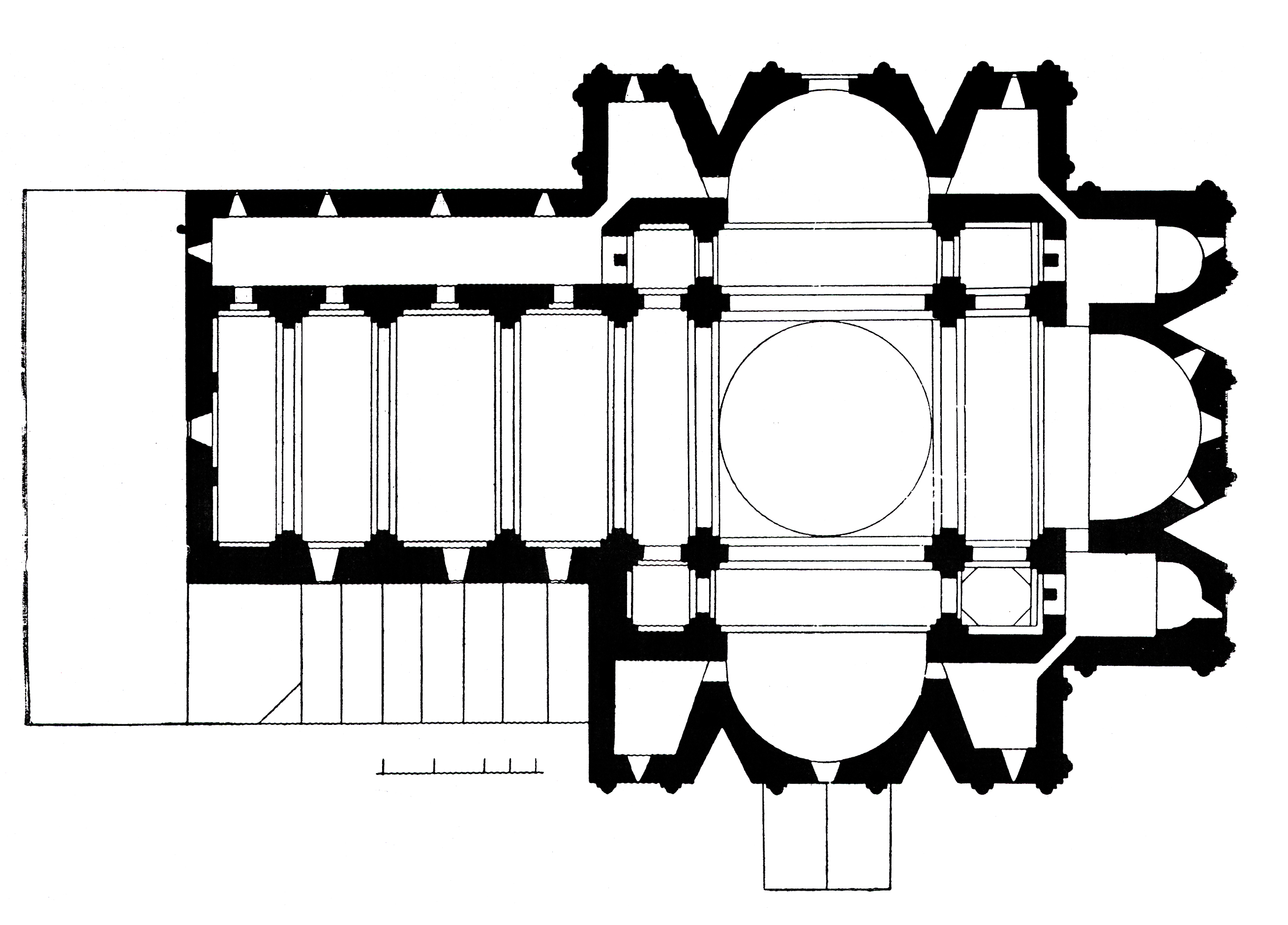 Second floor plan of the Oshki cathedral. ოშკის საკათედრო ტაძრის II სართულის გეგმა.